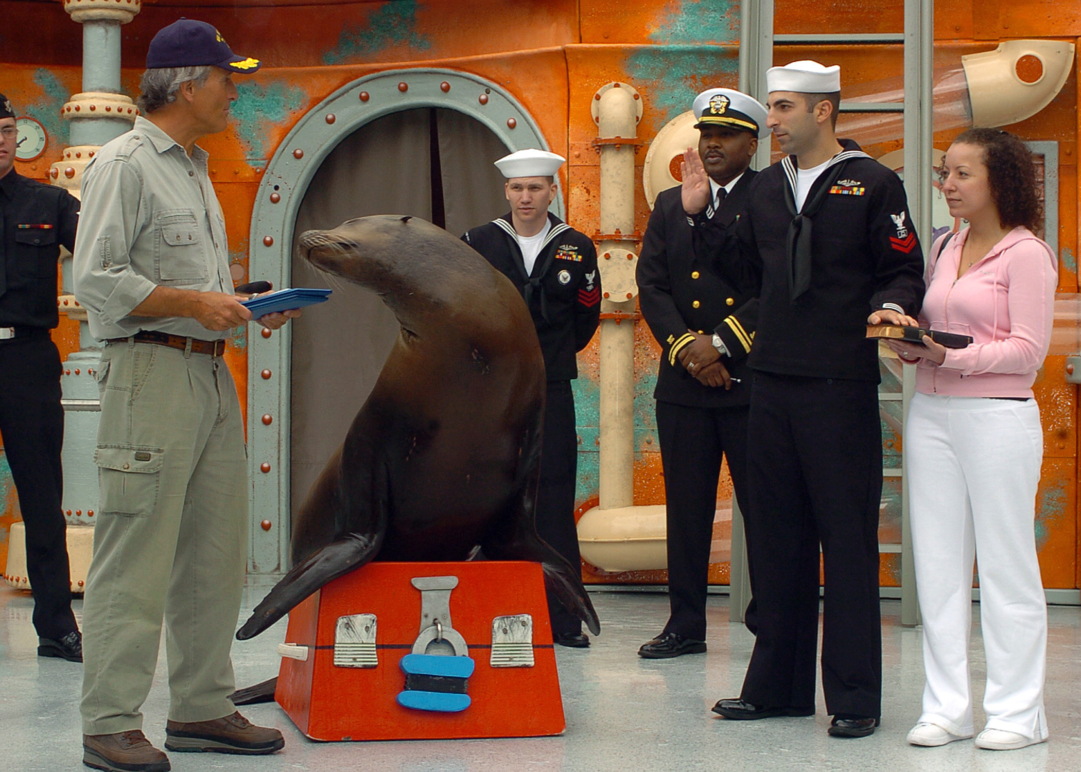 San Diego, Calif. (Mar. 19, 2005) - Jack Hanna, host of Jack Hanna’s Animal Adventure, reenlists Culinary Specialist 2nd Class Richard Youhan with “Seamore,” the sea lion. Youhan and the crew of Los Angeles-class attack submarine USS Jefferson City (SSN 759) took part in the opening ceremony for Sea World San Diego’s new submarine-themed otter and sea lion adventure show, “Deep, Deep Trouble”. Commanding Officer, USS Jefferson City, Cmdr. Daryl Caudle and his wife christened the new attraction. U.S. Navy photo by Photographer’s Mate 3rd Class Jo A. Wilbourn Sims (RELEASED)